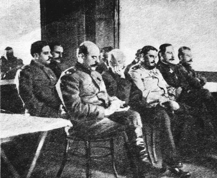 Dragutin Dimitrijević "Apis" (1876–1917) – a Serbian colonel and member of the "Black Hand" during the trail in Salonica 1917